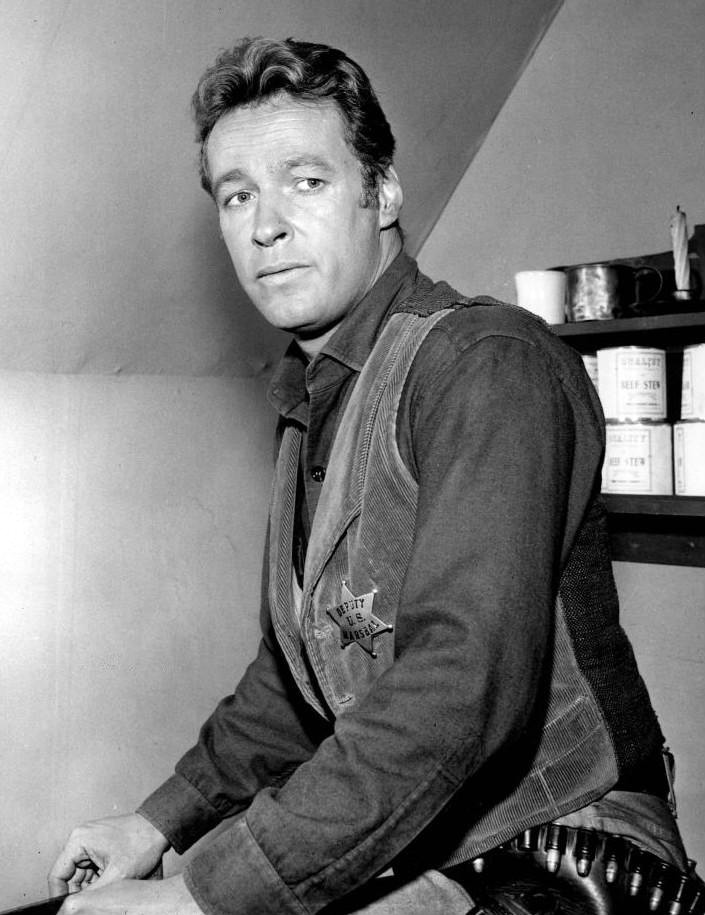 Photo of Russell Johnson as Gib Scott from the television program Black Saddle.